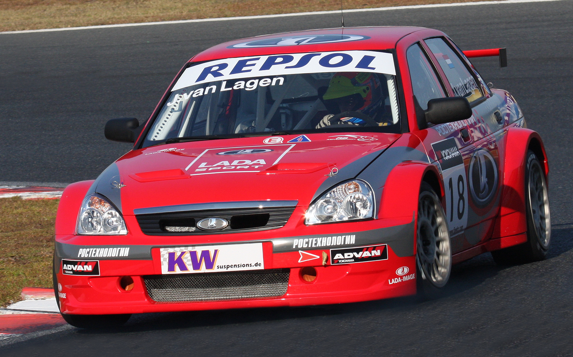 World Touring Car Championship 2009 Race of Japan: Jaap van Lagen (LADA Sport) at free practice.